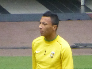 Eloy Room in GelreDome prior to the football match Vitesse vs. FC Twente